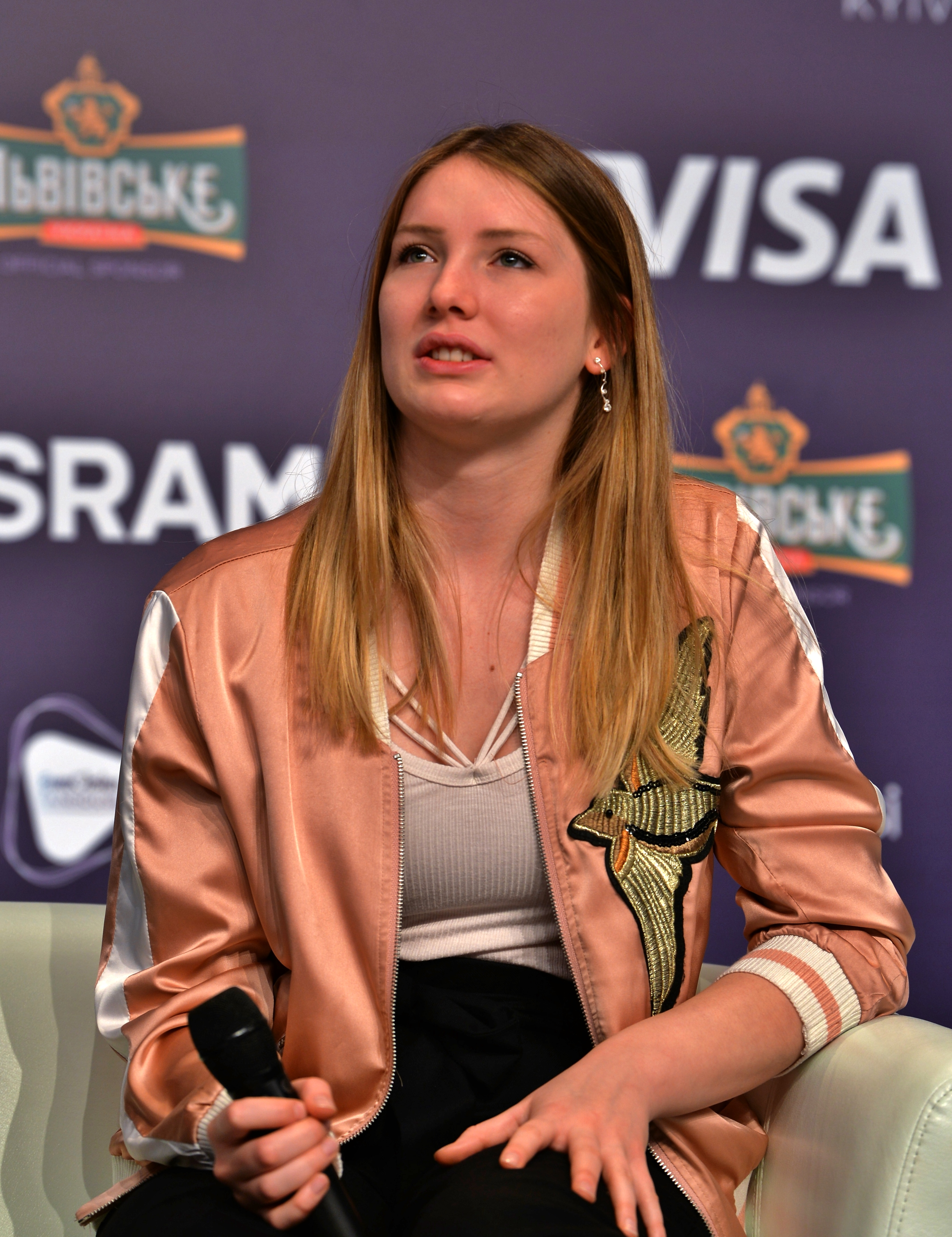 Belgian singer Blanche (Ellie Delvaux) in Kyiv 2017